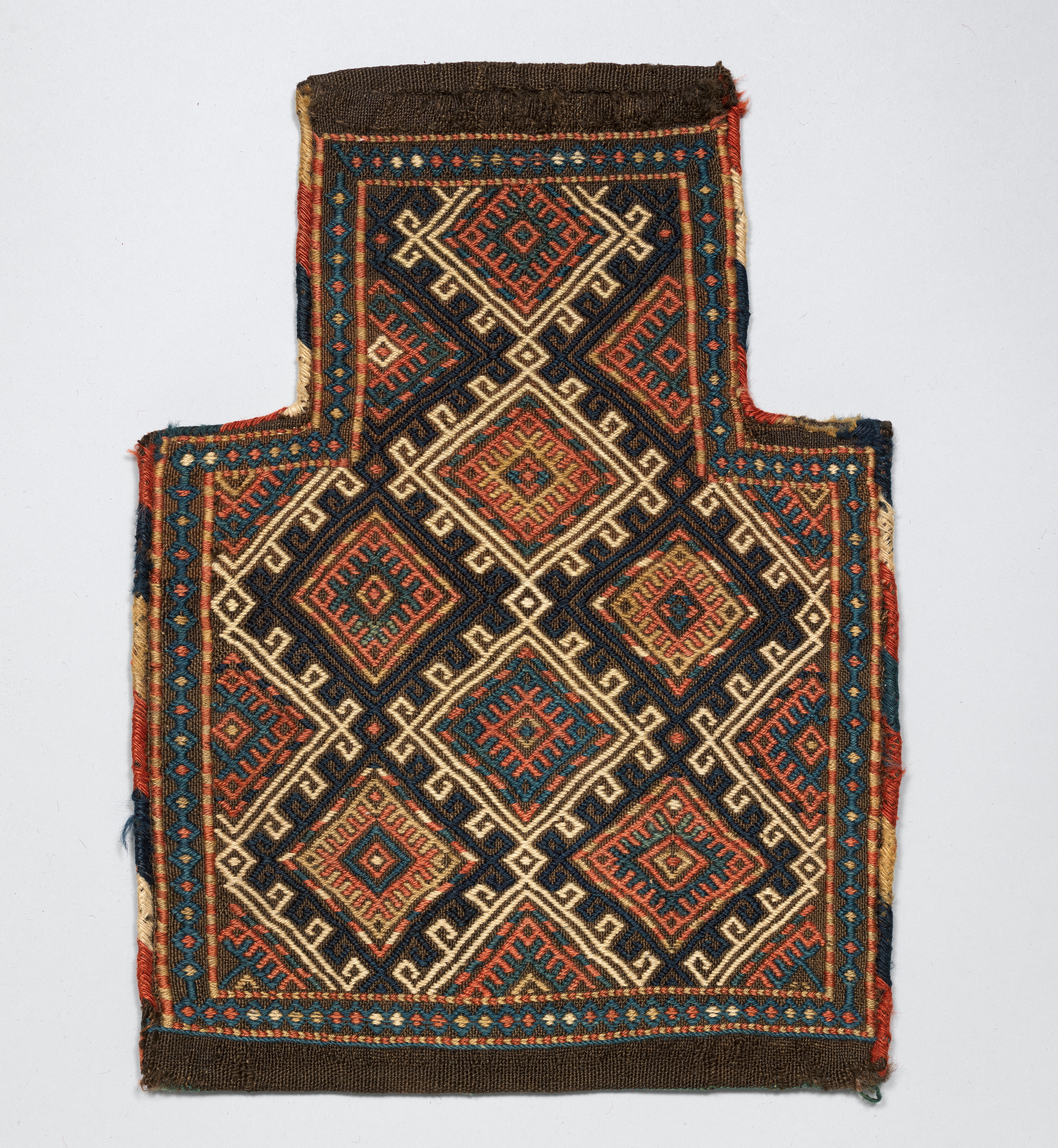 Bag; Textiles-Woven-Brocade